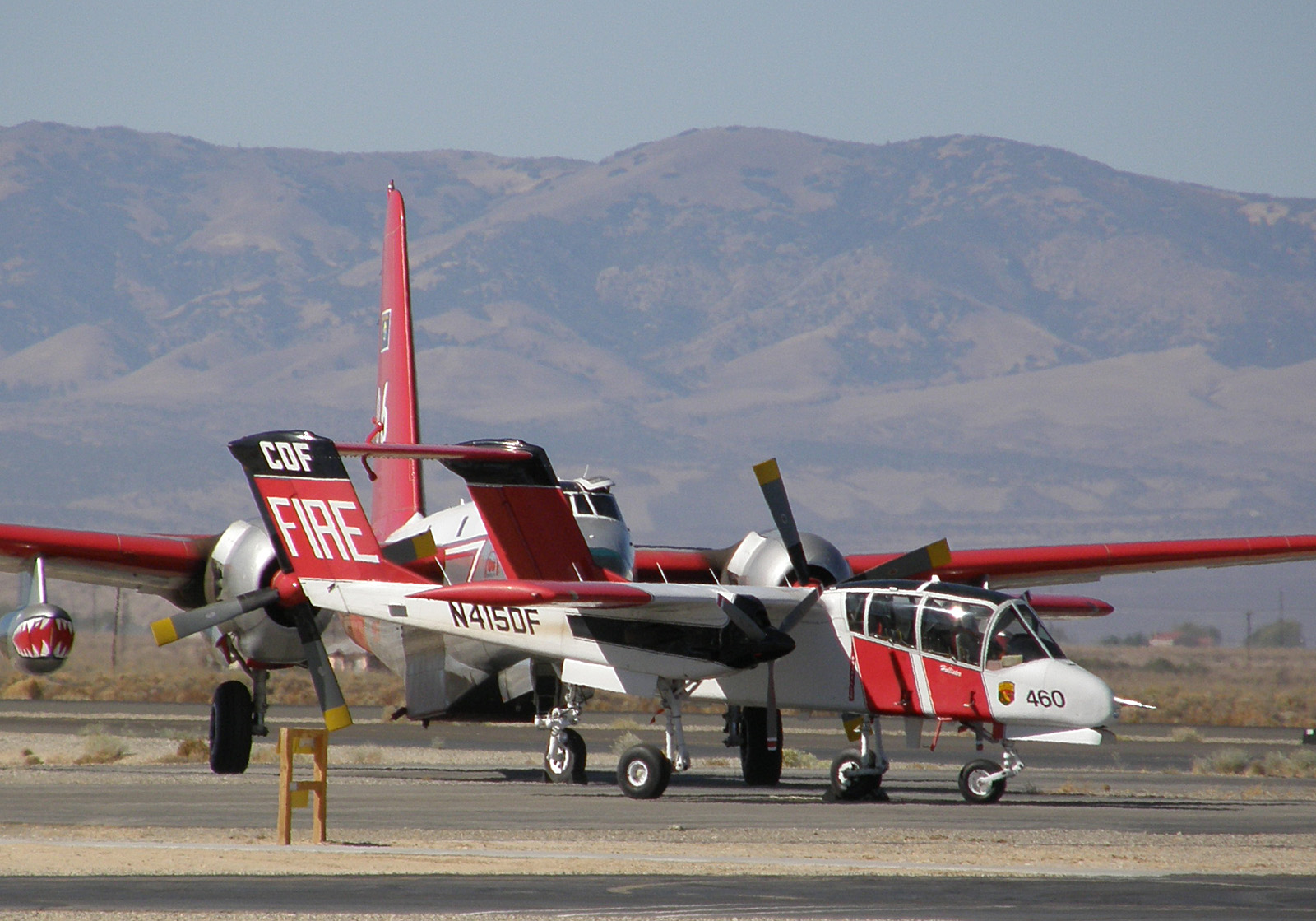 CALFIRE OV-10 Bronco air attack aircraft at Fox Field, on October 22, 2007, during the 2007 Southern California fire storm.